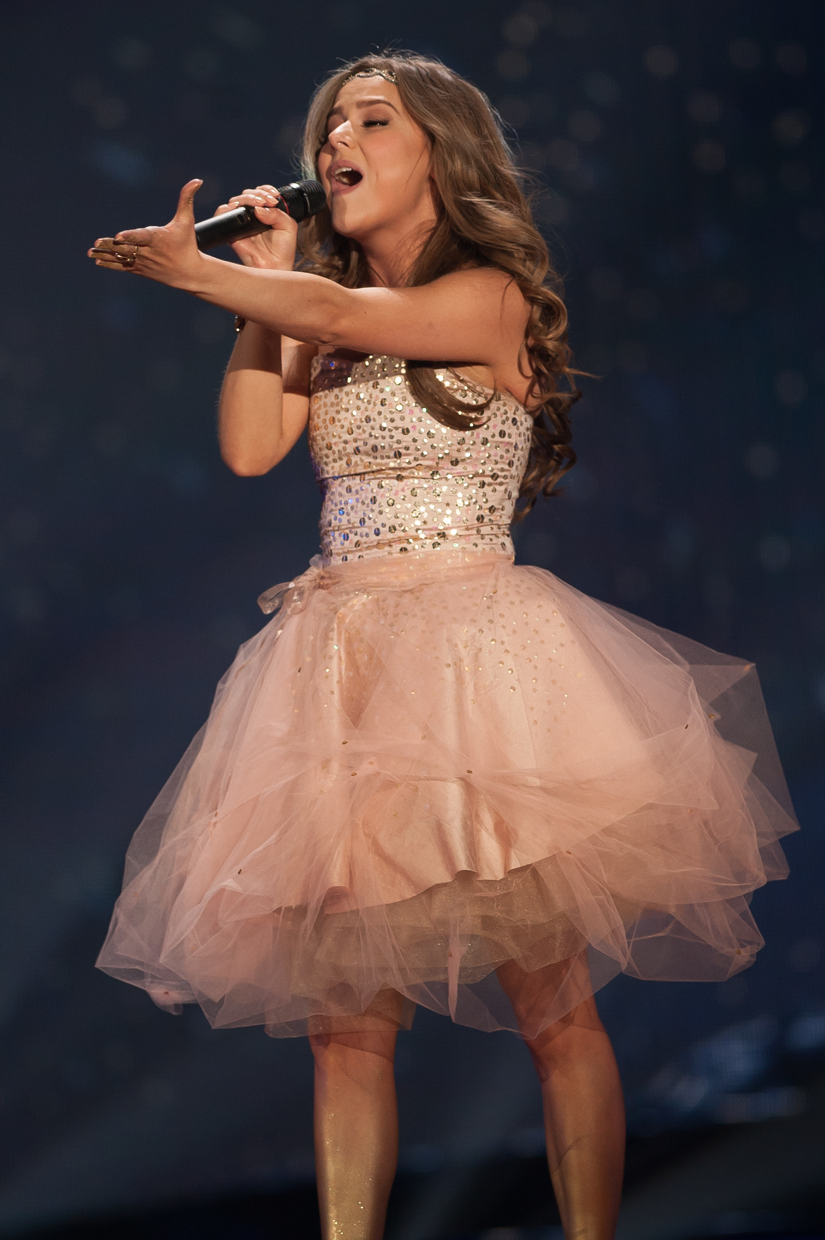 Eurovision Song Contest Vienna 2015: Maria Olafs